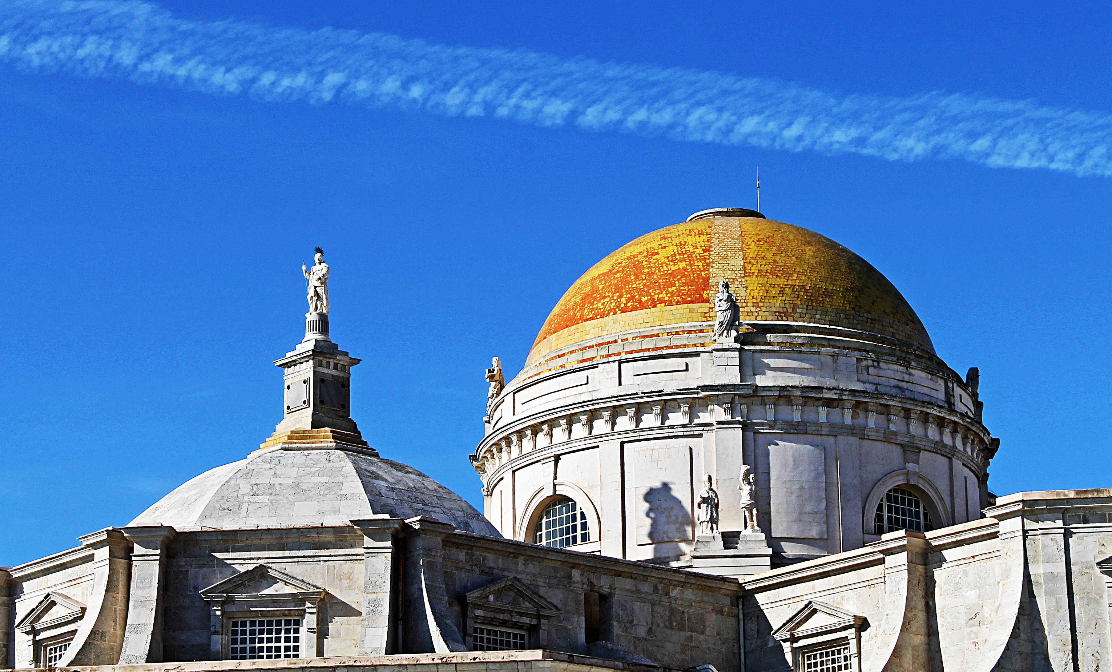 view of the famous yellow cupola of Cadiz Cathedral, en Andalucia.